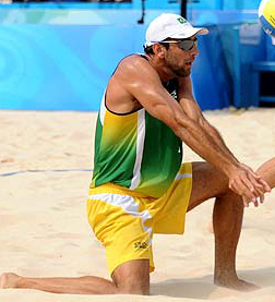 Beach Voleyball player Márcio playing at the 2008 Summer Olympic Games in Beijing.